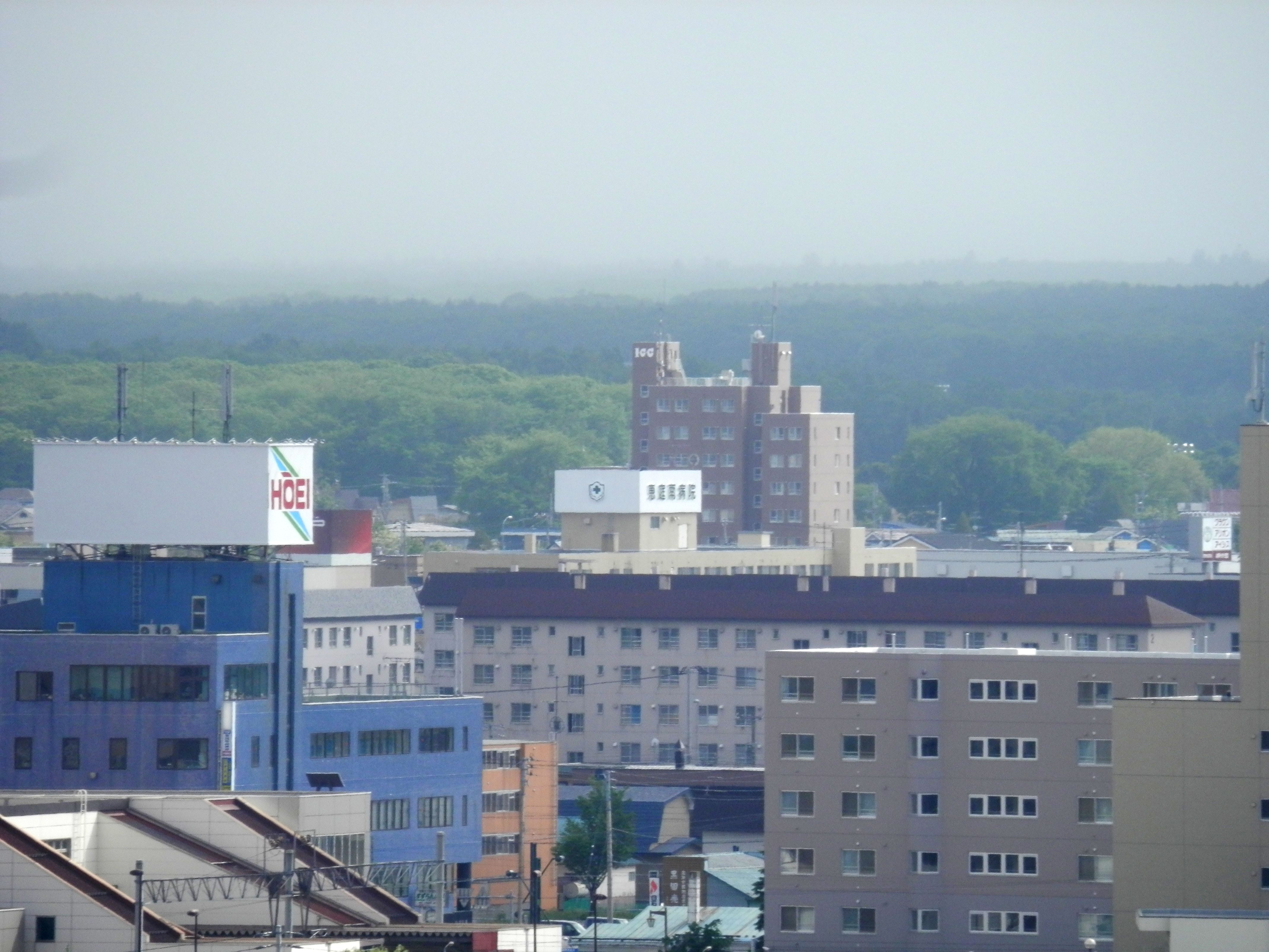 Left: Hoei Construction/Toyosaka Building Centre: Eniwa South Hospital